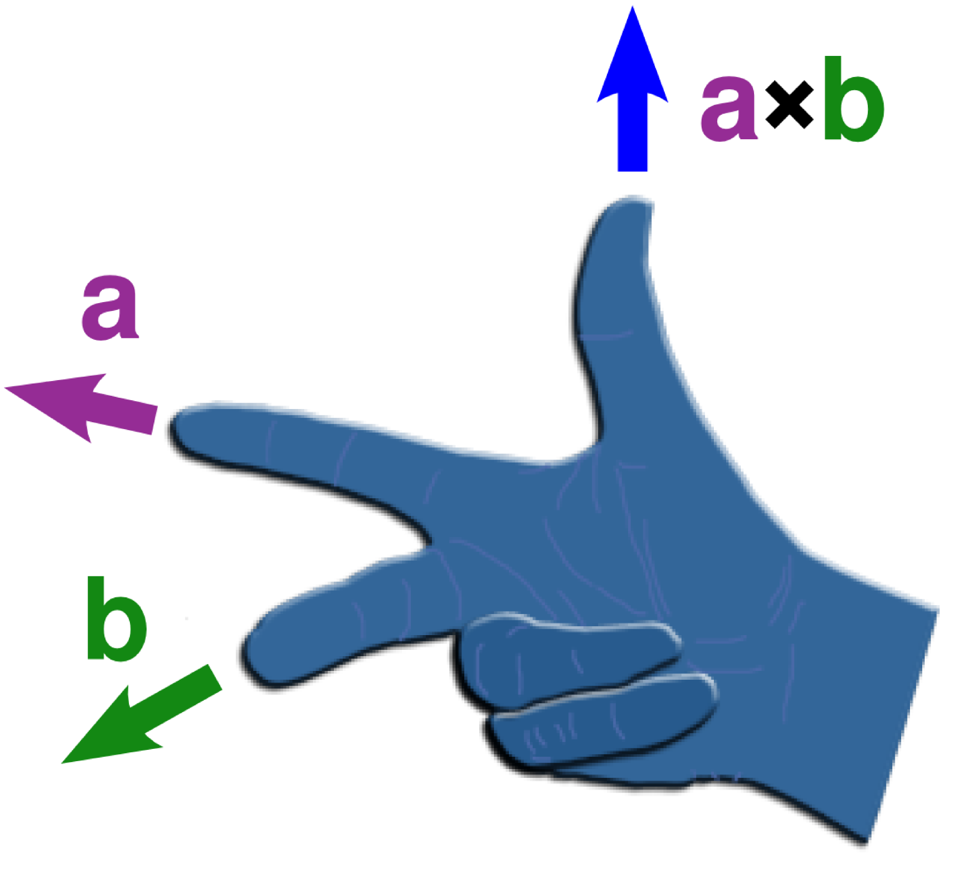 Illustration of right-hand rule for the cross product. Based on Image:LeftHandOutline.png, so this is under the same license, GFDL.